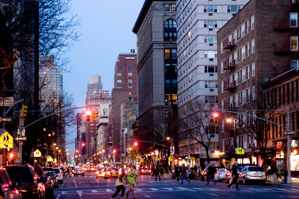 urbanizimi